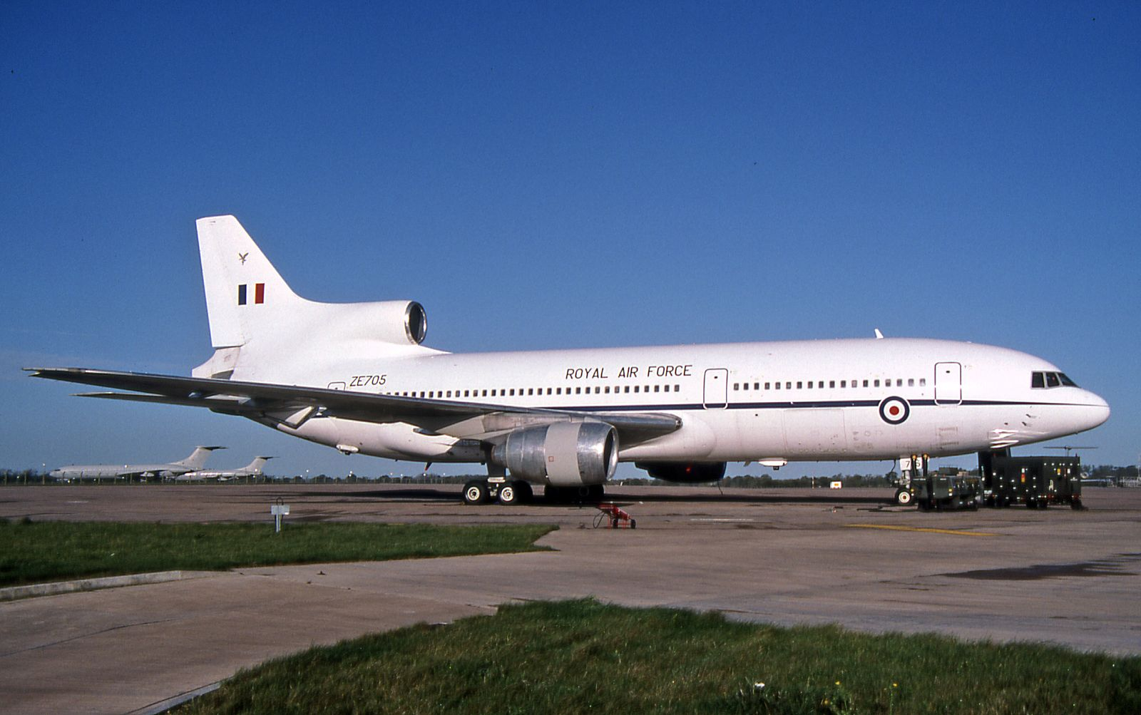 I received this photo from a friend. The picture was too good not to be shared. (Scan from slide)